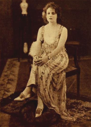 Mexican actress Emma Padilla (1900 – 1966), on page 52 of the January 1922 Photoplay.